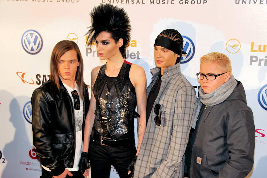 This photo is the Tokio group of EMA Berlin 2009 Awards best group award winning